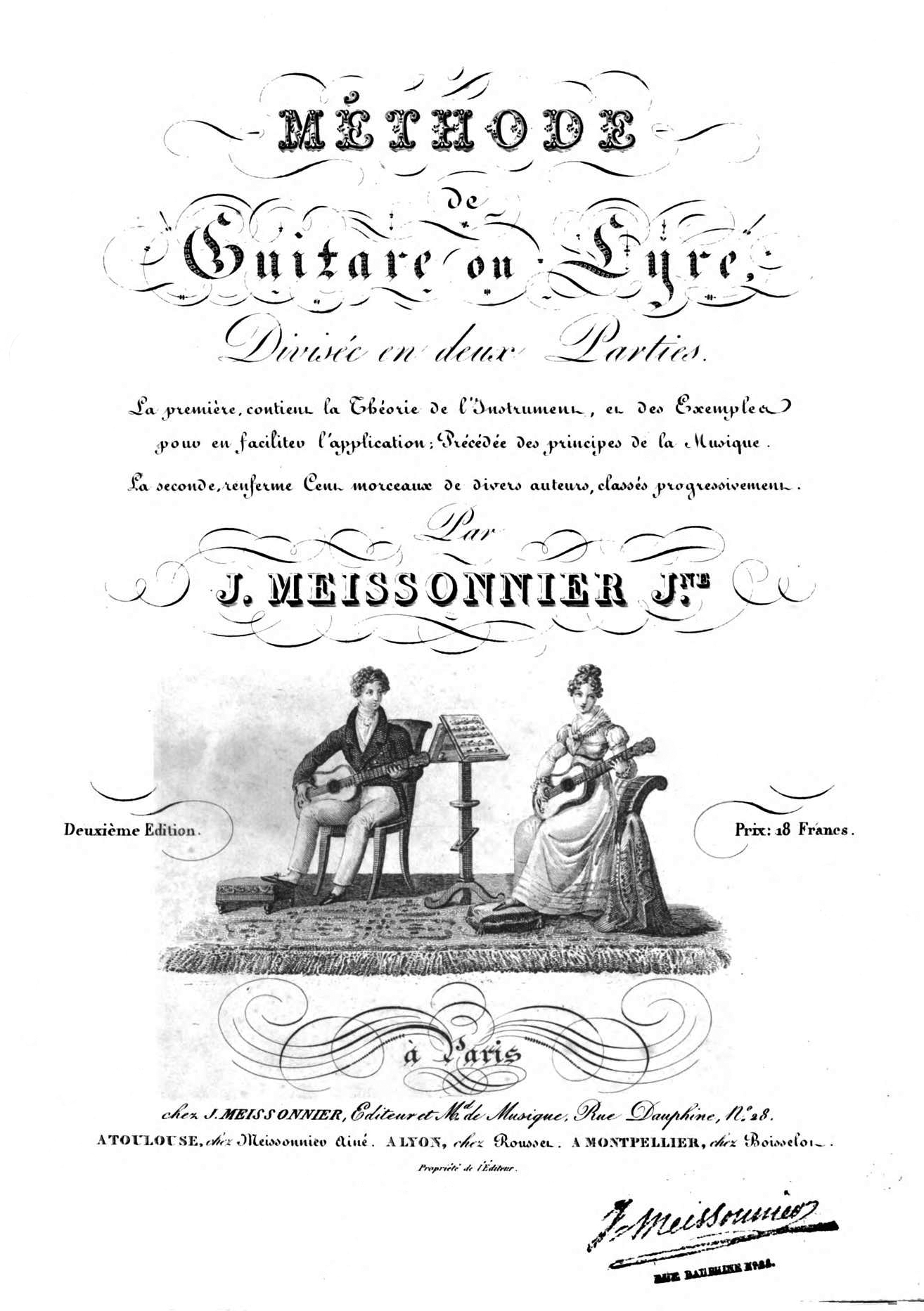 Title page of Joseph Meissonnier's Méthode de guitare ou lyre